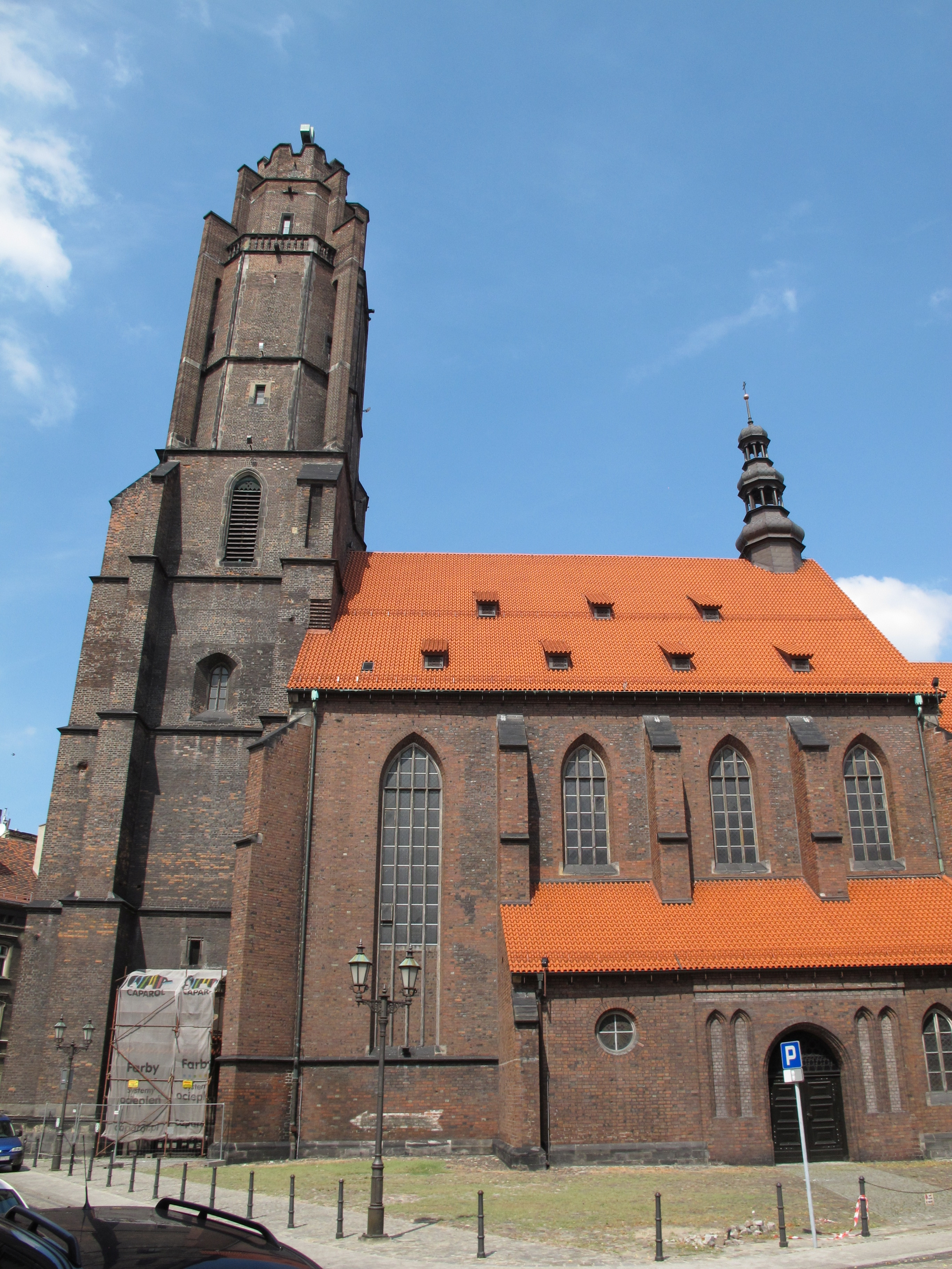 Gliwice - All Saints church